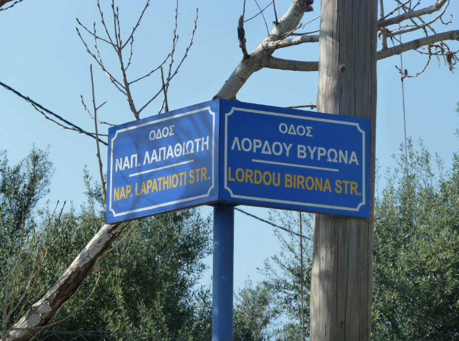 Road signs in Thomeika, a neighborhood of Mireika, Achaia, Greece.